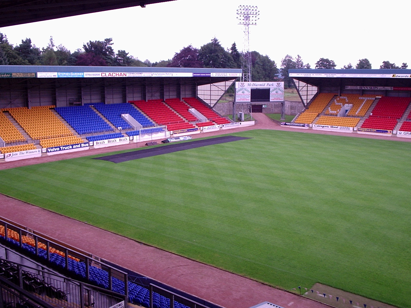 Photo taken by Ian Fraser, 8th August 2004